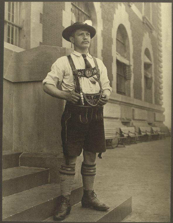 Digital ID: 418026. Sherman, Augustus F. (Augustus Francis) -- Photographer. [ca. 1906-1914] Notes: Identified as 'Wilhelm Schleich, a miner from Hohenpeissenberg, Bavaria' in Peter Mesenholler 'Augustus F. Sherman: Ellis Island Portraits 1905-1920' (c1905) p.28. Source: William Williams papers / Photographs of immigrants ( Repository: The New York Public Library. Manuscripts and Archives Division. See more information about and others at Persistent URL: Rights Info: No known copyright restrictions; may be subject to third party rights (for more information